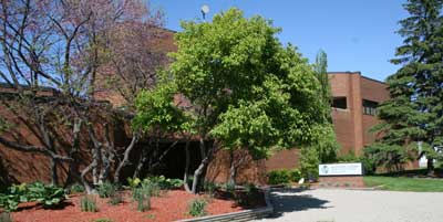 Sarnia Education Center